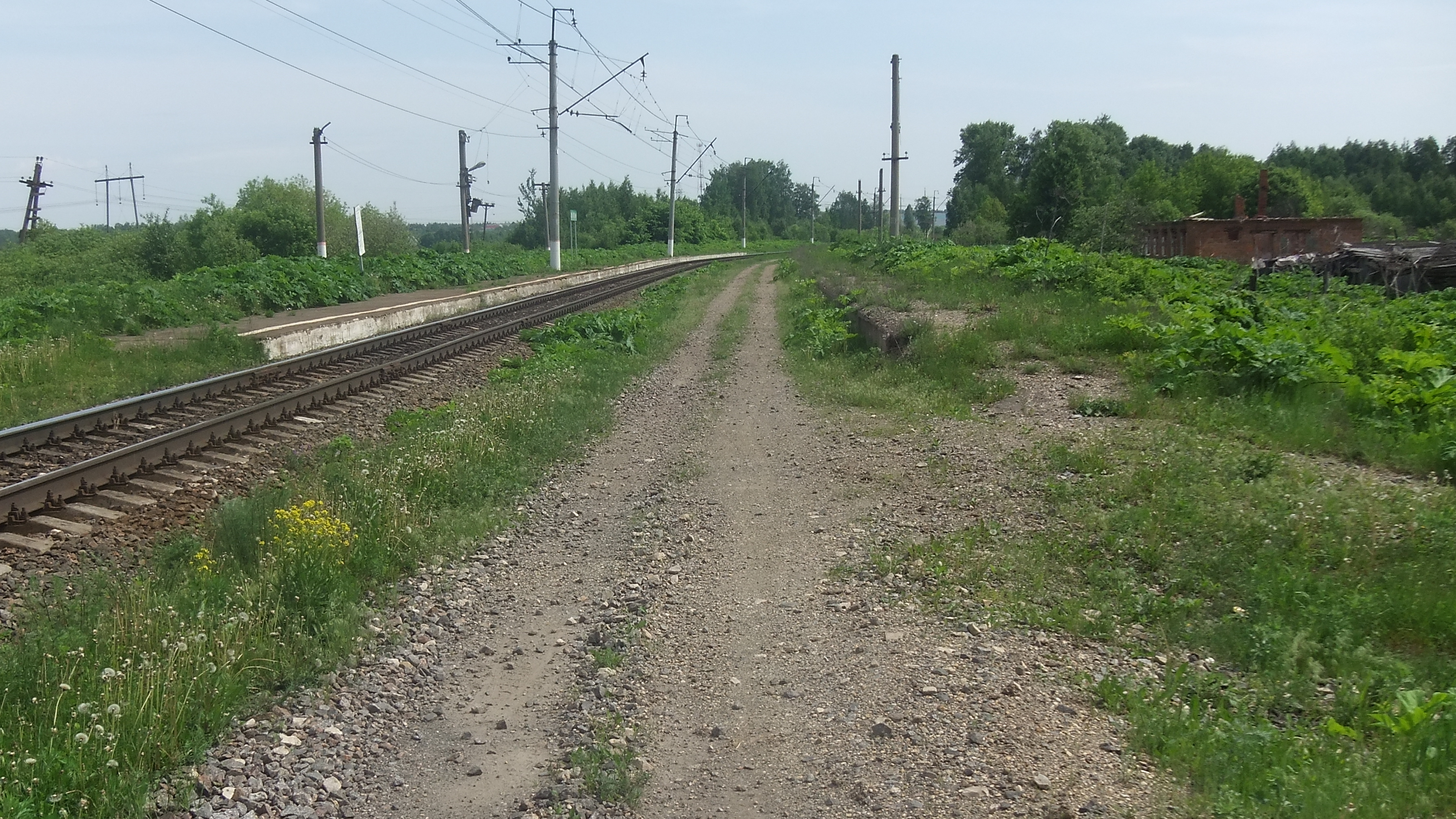 116 km BMO railway platform. Common view to both platforms from west